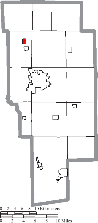 Map of the municipal and township boundaries of Ashland County, Ohio, United States, as of the 2000 census, with the location of the village of Savannah highlighted. Township borders are shown only in unincorporated areas in order to differentiate incorporated and unincorporated areas more clearly.